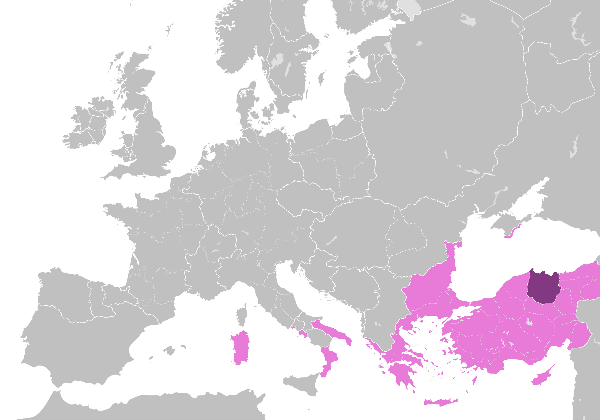 Map of the Armeniacs Theme within the Byzantine Empire in 1000 AD. Based on